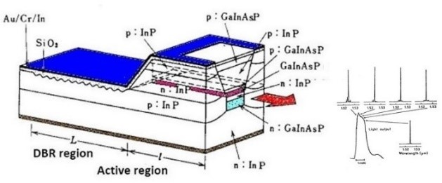 Fig.4. Single mode property and schematic structure of the first demonstration of dynamic single mode laser at wavelength of 1.5 micrometers, in October 1980.